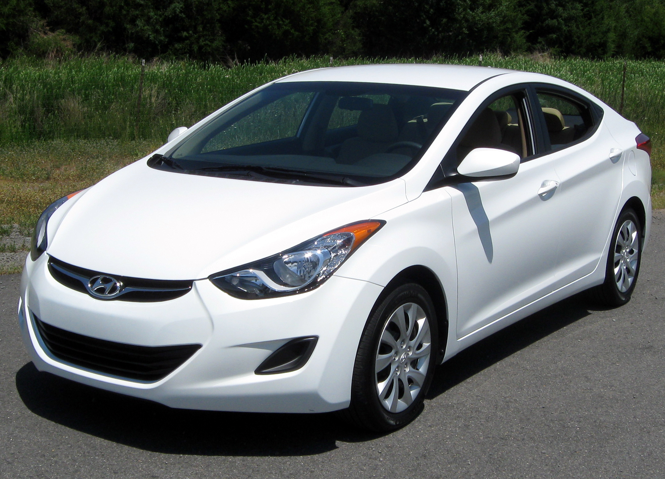 2011 Hyundai Elantra photographed in Centreville, Virginia, USA.